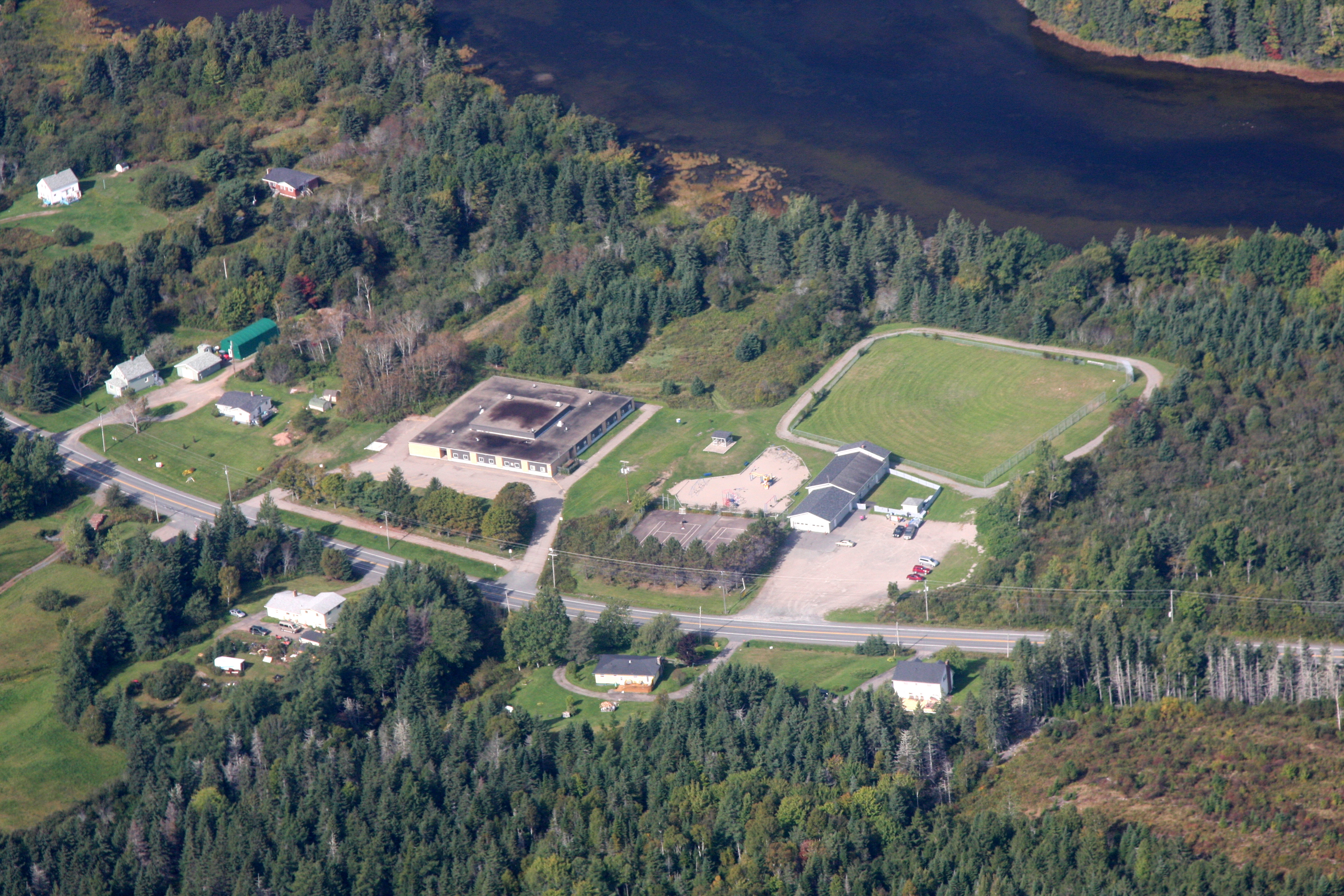 East Bay is a community in the Canadian province of Nova Scotia, located in the Cape Breton Regional Municipality on Cape Breton Island. It is situated on the south side of the East Bay of the Bras d'Or Lake, from which it gets its name. East Bay has one public beach (East Bay Sandbar) and a large number of summer cottages with beach front property. East Bay has a Volunteer Fire Department, a Playground, and a Ball field, all visible in the photo. The former Elementary School can also be seen. The community was the site of the College of East Bay (1824-1829) which was moved to Arichat and later Antigonish where it became St. Francis Xavier University.